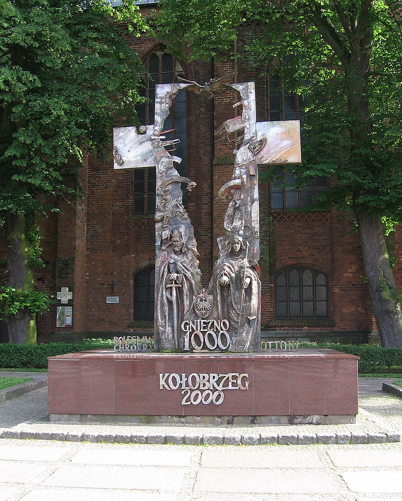 Monument of thousandth anniversary of Congress of Gniezno - in Kołobrzeg, Poland. Monument made by Wiktor Szostalo in Saint Louis.